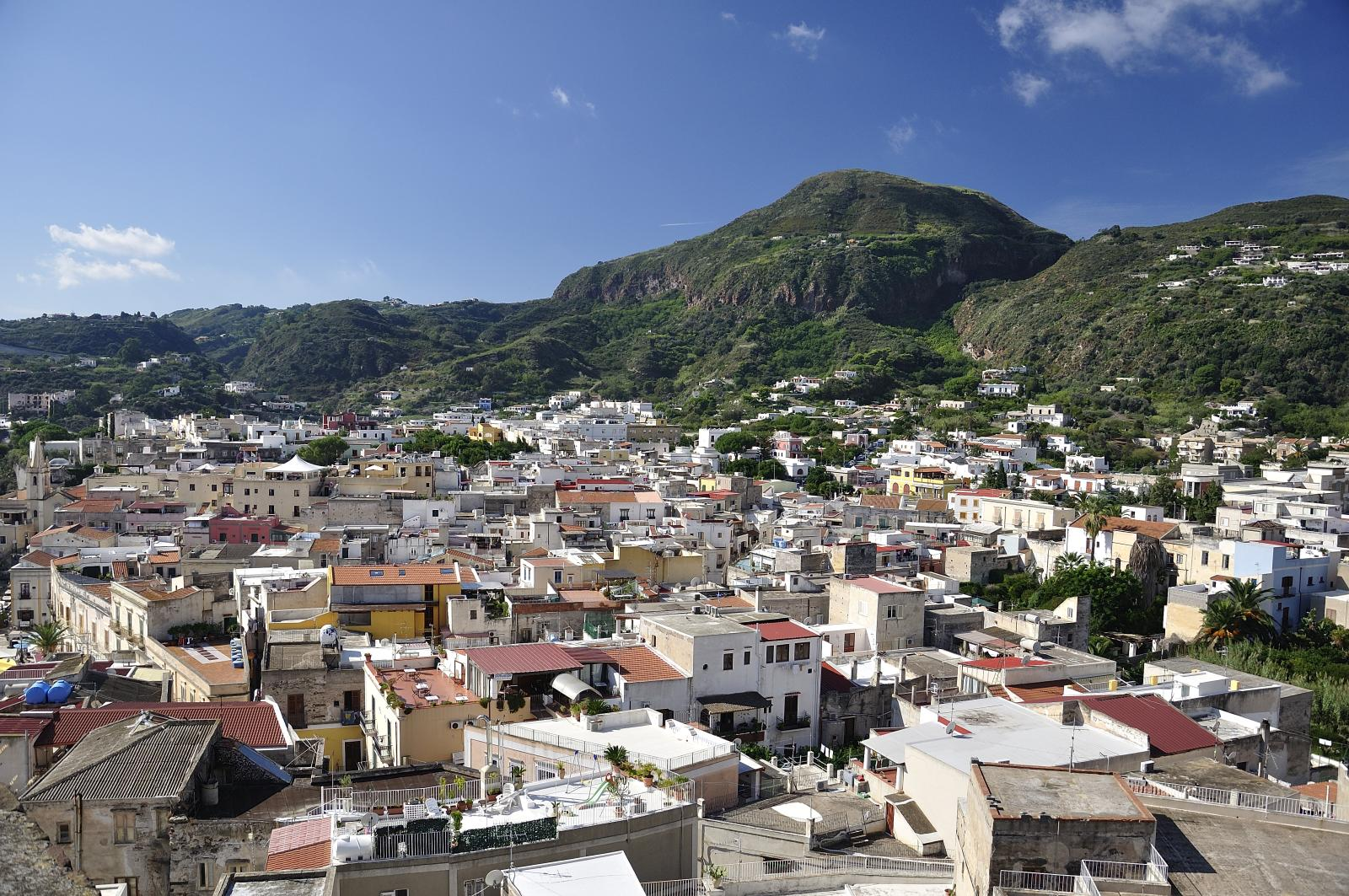 A journey to the Aeolian islands. City of Lipari